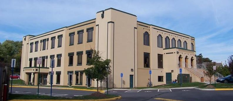 ADAMS pic